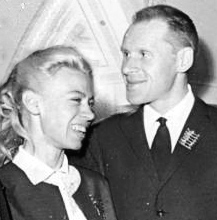 Liudmila Belousova and Oleg Protopopov in 1966.